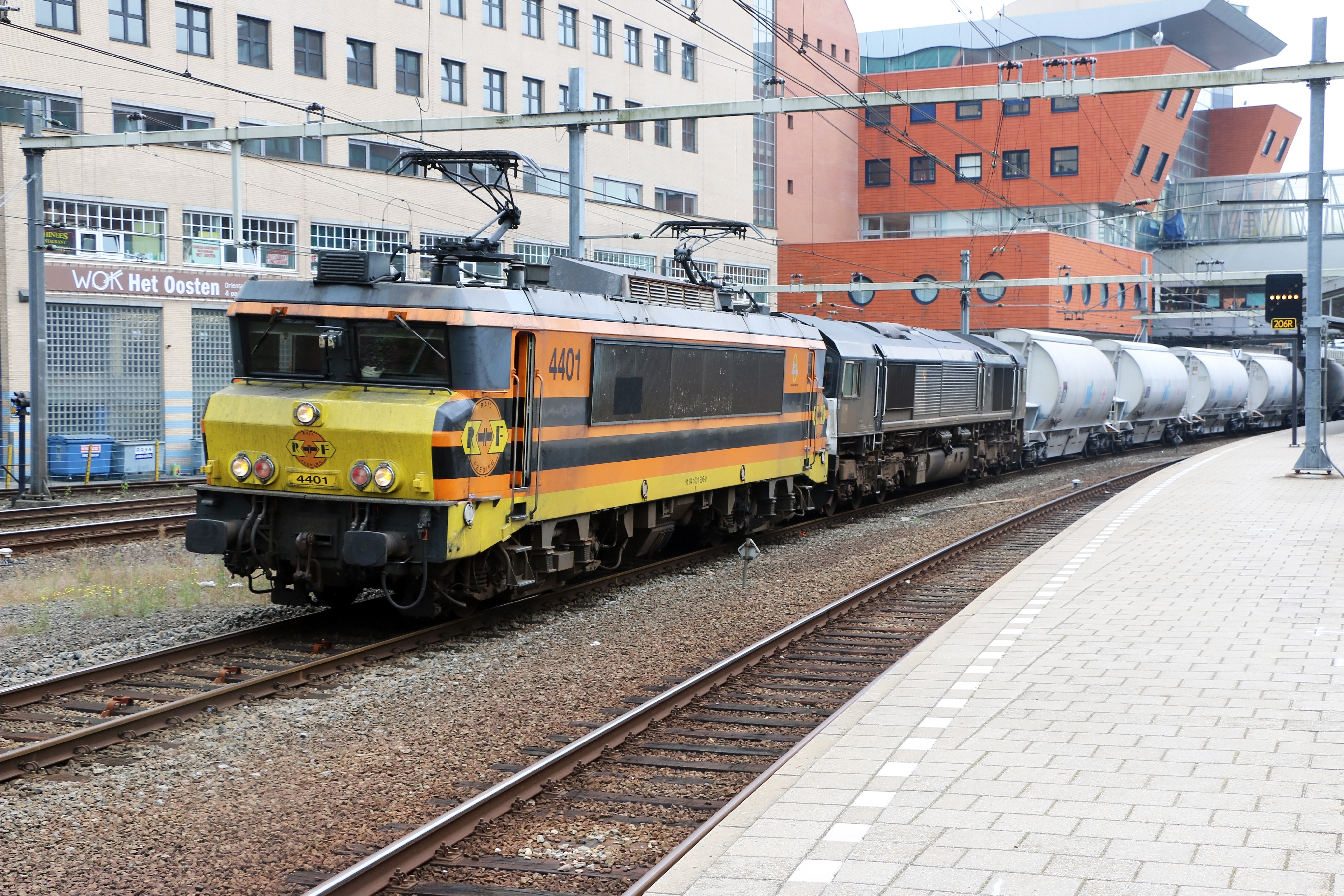 Station Amersfoort, Spoor 3, 23 september 2014